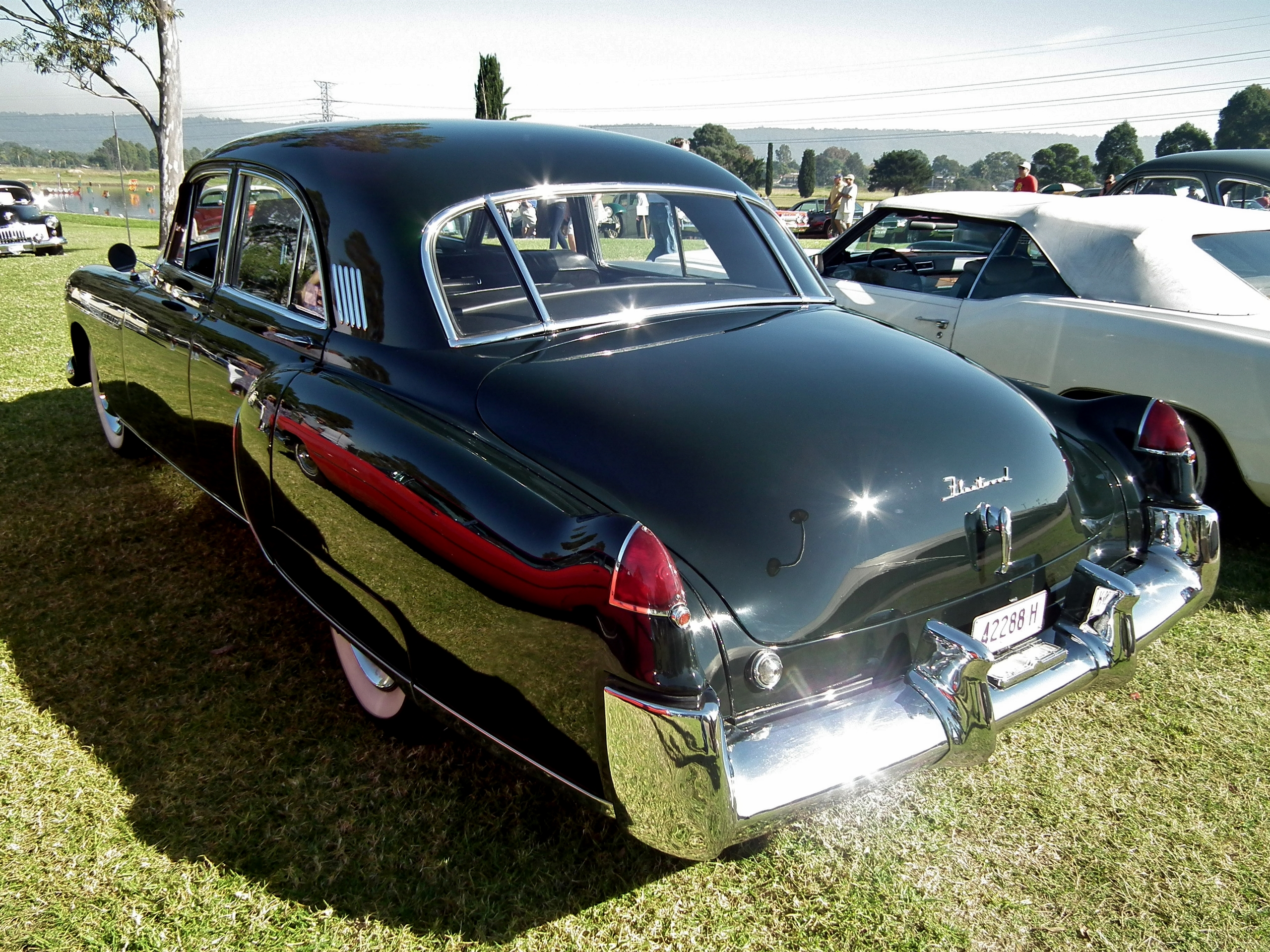 1948 Cadillac Fleetwood Sixty Special sedan. Taken at the 2013 General Motors Display Day, held in the grounds of Penrith Panthers Club, Penrith NSW.